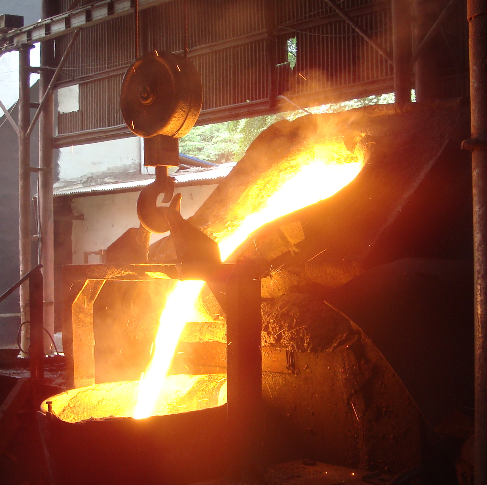 AMIR-FACTORY-5